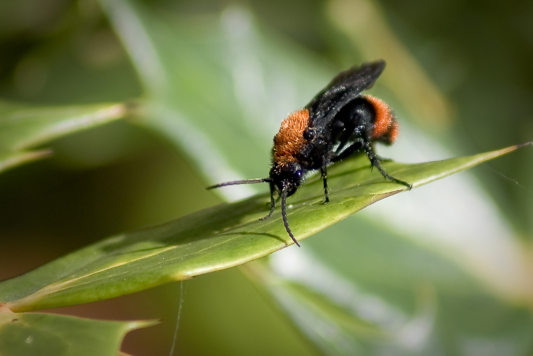 Cow Killer